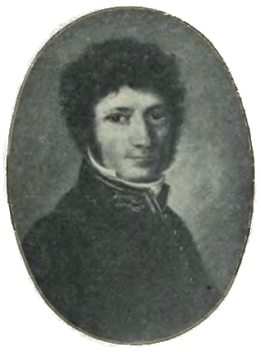 The Norwegian author Henrik Anker Bjerregaard.